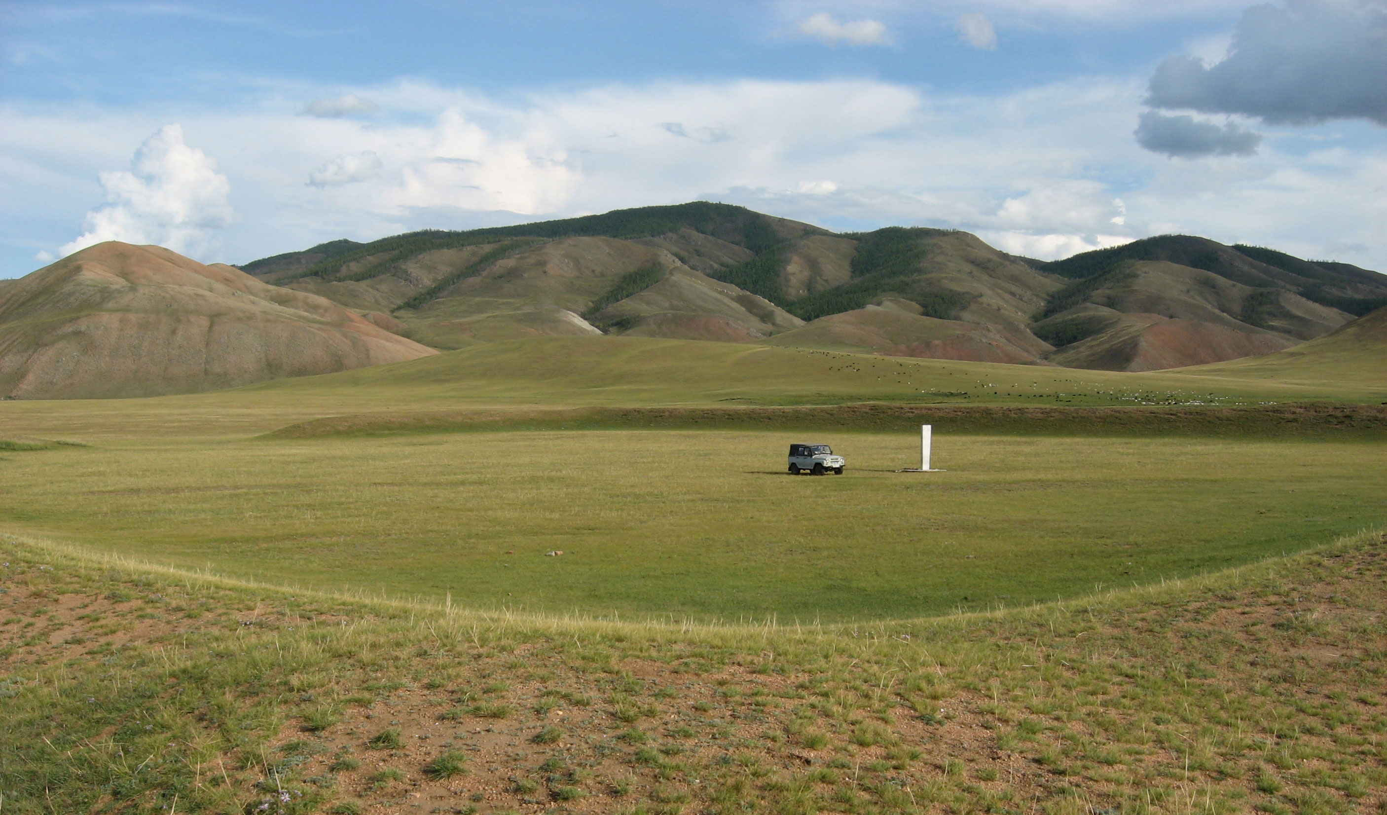 remains of a fort at the Zagzuu creek, some km south of Bürentogtokh sum centre, Khövsgöl aimag, Mongolia, Sep. 2007. The stele is a monument for Chingünjav. direction of view is south-east.